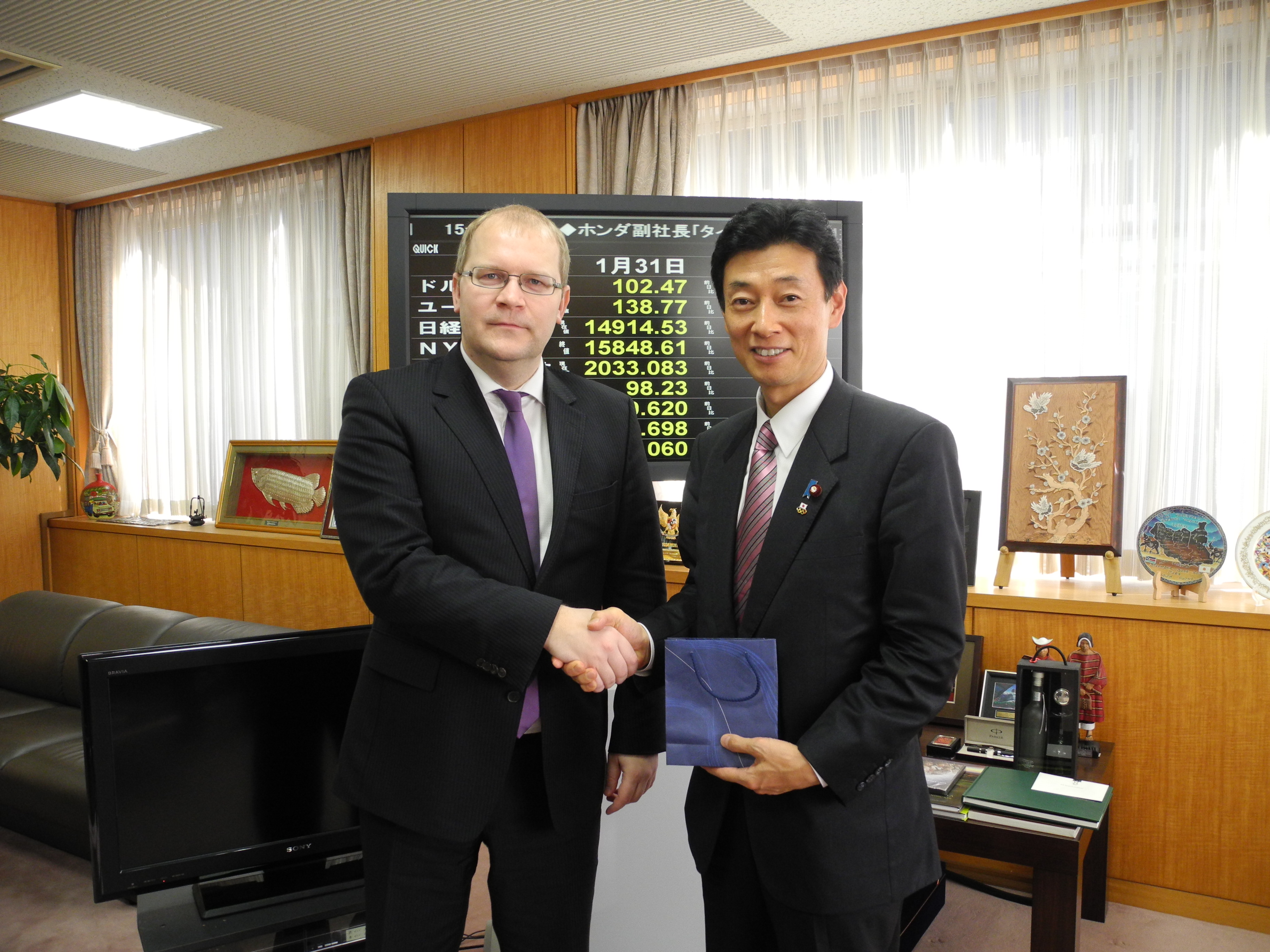 Urmas Paet, Minister of Foreign Affairs, met Yasutoshi Nishimura, Senior Vice-Minister of the Cabinet Office, at the Central Government Building No.4 in Chiyoda Ward, Tōkyō Metropolis